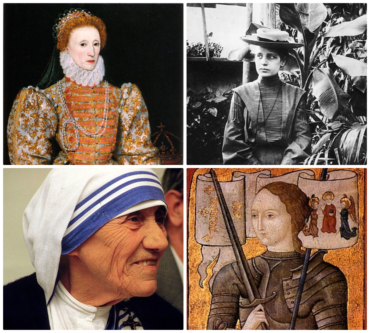 Christian Womens. Anyone can use these original photos themselves among others and make another collage of (Christians) themselves or remix as they wish, as long as they give the correct source and usage/Copyright given. Dont delete the photos, if one becomes unusable due to copyright, please dont delete, just replace the photo or i will.